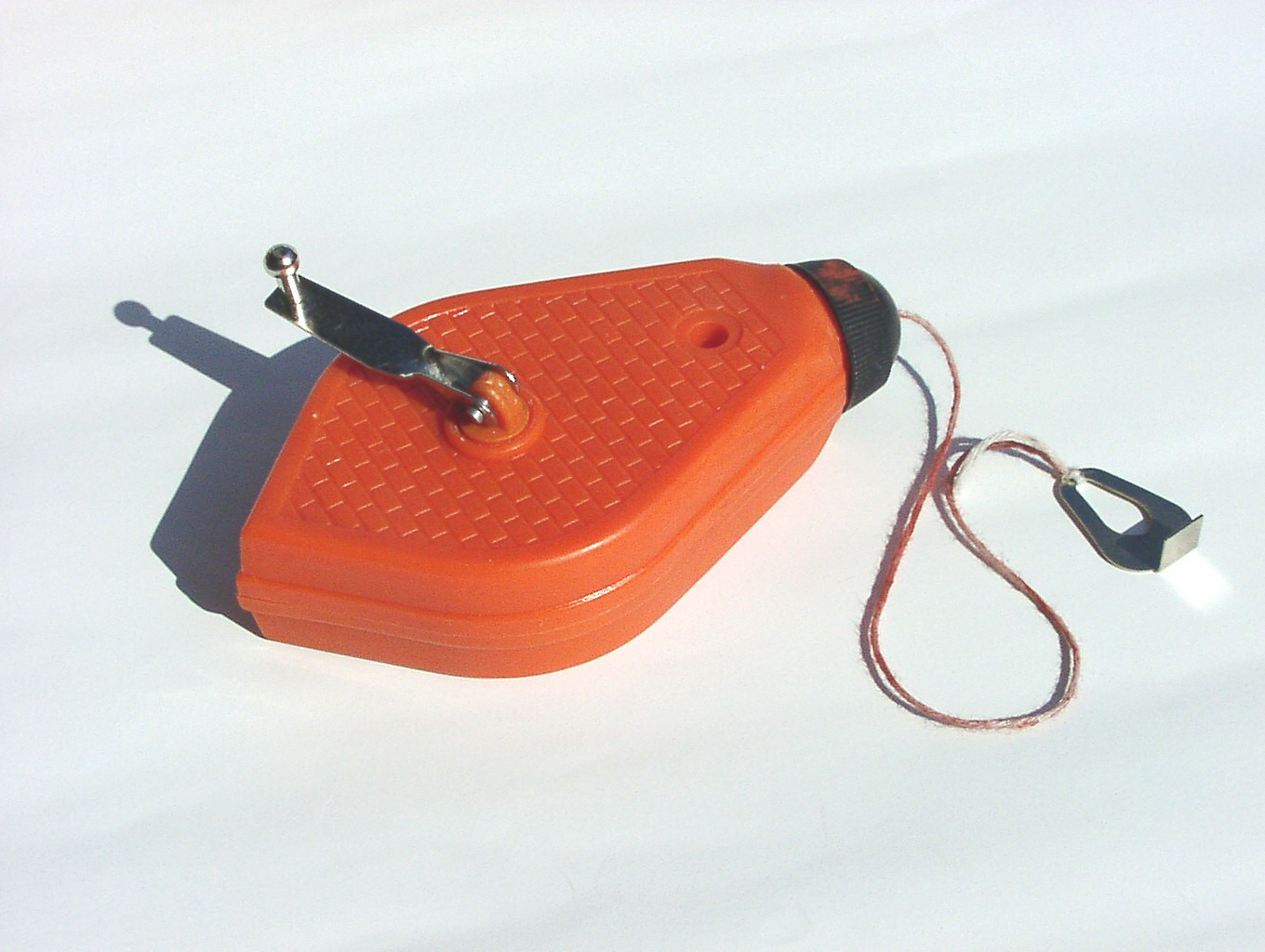 Chalk Line Wheel